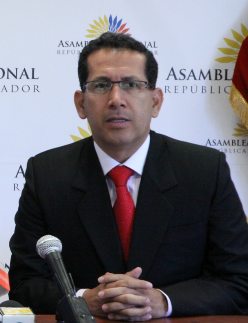 Geovanny Benitez. Crop from File:Asambleísta Mary Verduga, en compañía del prefecto de Santo Domingo de los Tsáchilas, Geovanny Benítez, y Luis López, representante de los ciudadanos concordenses en rueda de prensa (7651802706).jpg